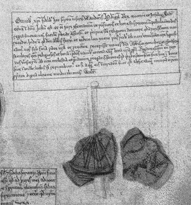 An illustration of a charter and seal of Haraldr Óláfsson, King of Mann and the Isles (died 1248).